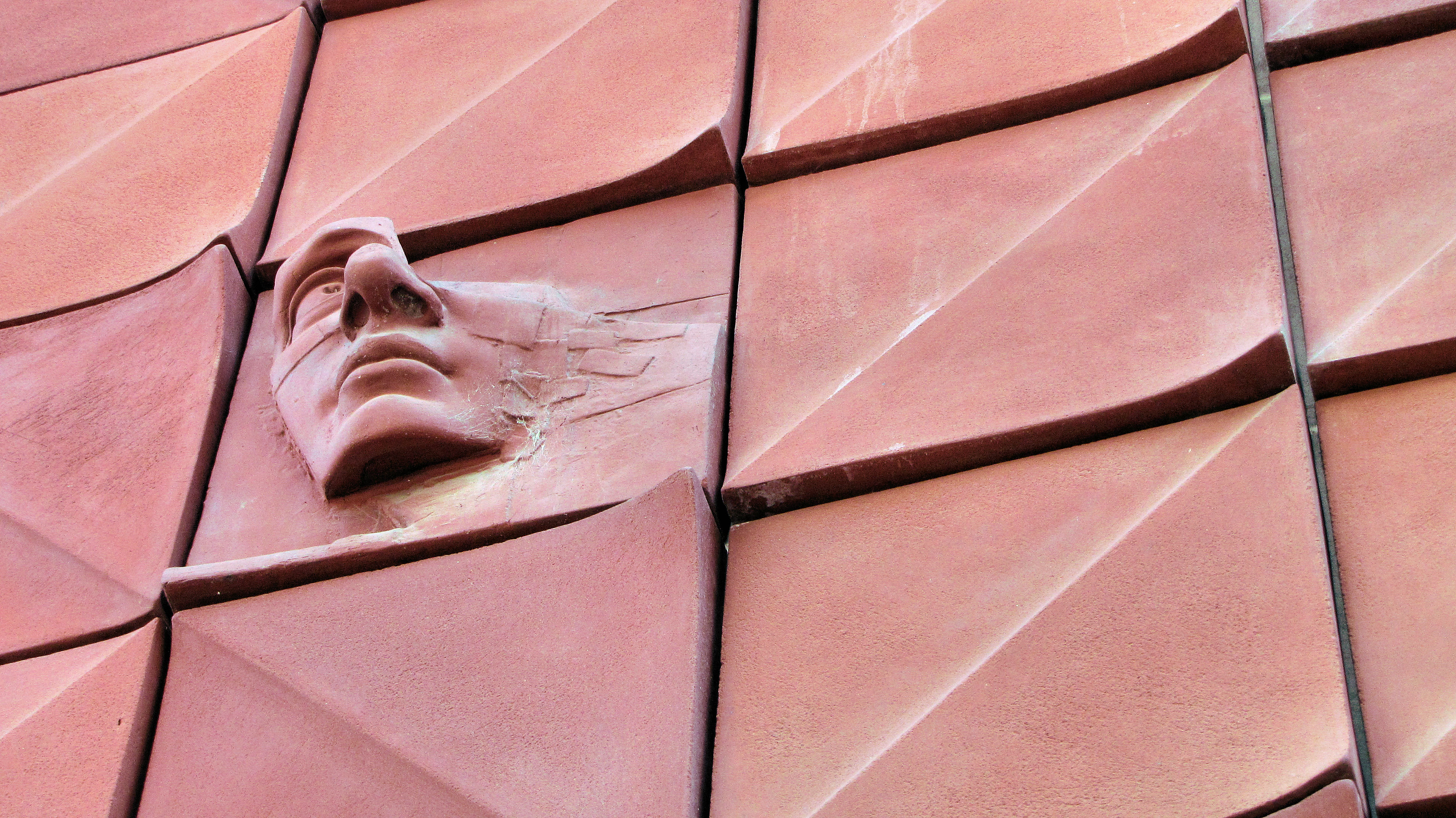 Margit Kovács Museum, Szentendre. Detail of the new addition, inaugurated in 2011. Architect of the new wing: József Kocsis. Ceramics: Tamás Asszonyi, Róbert Csíkszentmihályi, Tamás Szabó, Zoltán Szentirmai.